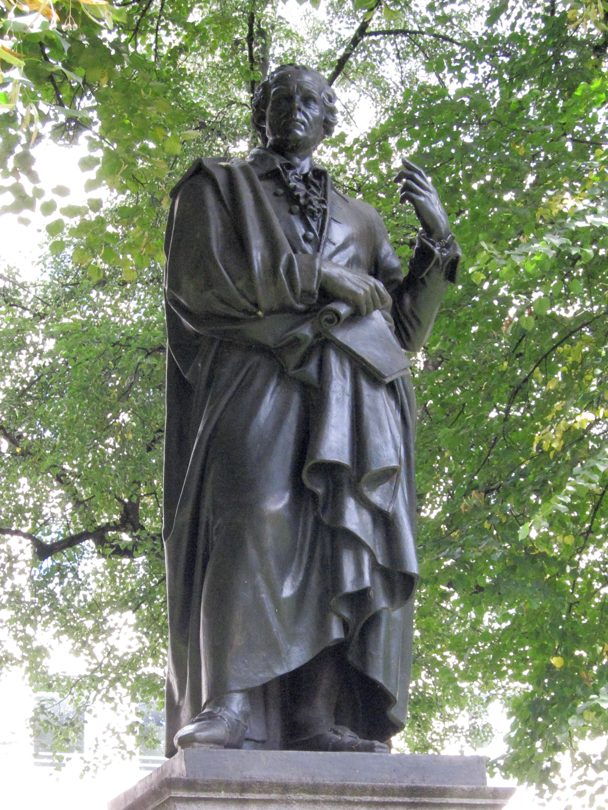 Statue of Christoph Willibald Gluck, by Friedrich Brugger, 1848; replica by Agostino Zuppa, 1958; on Promenadeplatz in Munich, Germany